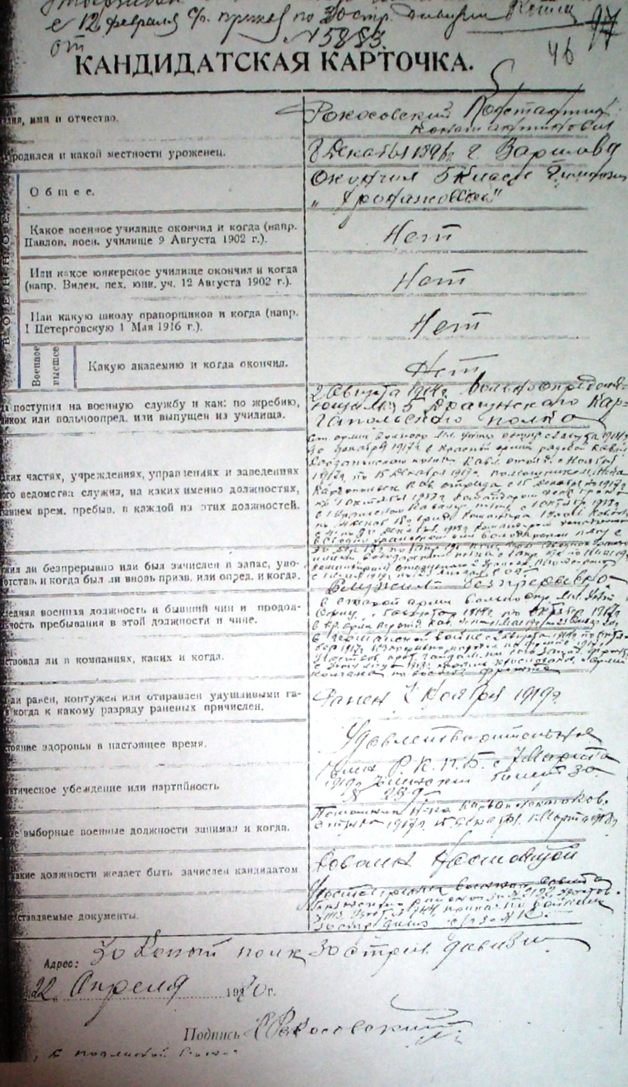 Konstantin Rokossovsky's personal questionnaire (joining Bolshevik Party, dated 22 April, 1920)2nd rubric: born 8 December (old style date) 1896 in Warszawa